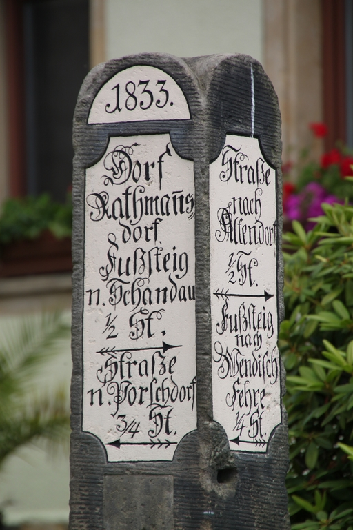 Rathmannsdorf, historic signpost from 1833, cultural heritage monument.